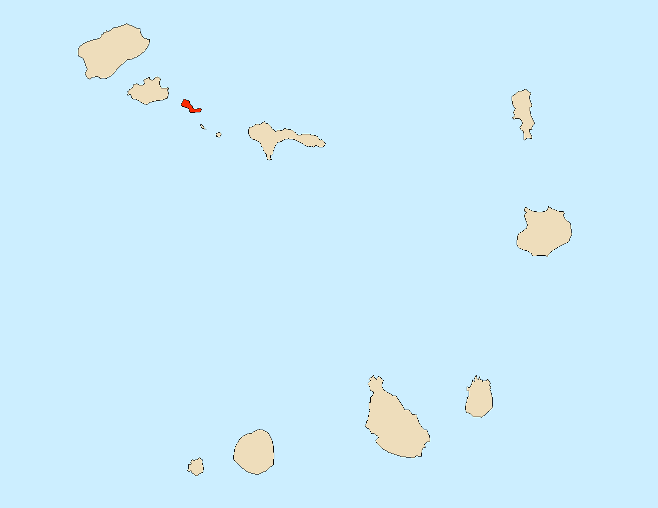 modified version, highlighting the island of Santa Luzia